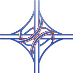 Three-Level Turbine Road Interchange